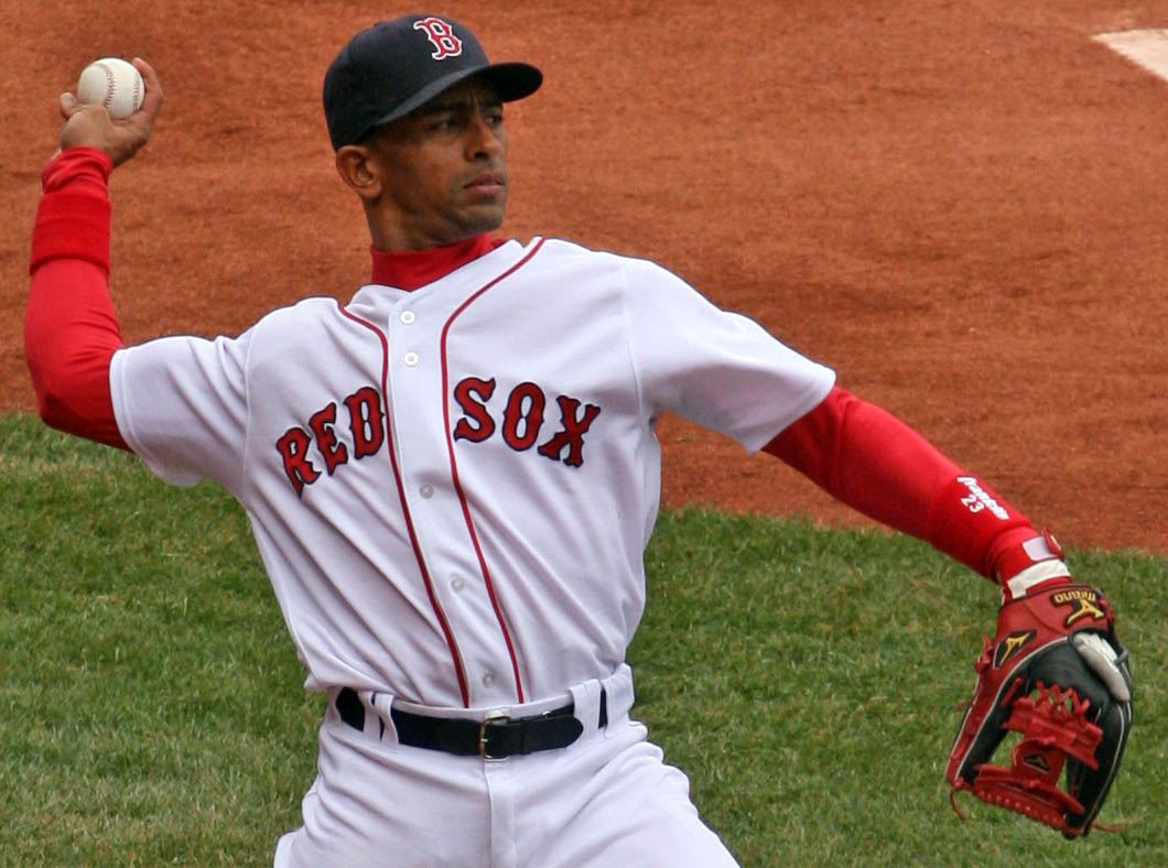 Julio Lugo of the Boston Red Sox warming up before a game against the Los Angeles Angels of Anaheim at Fenway Park 4/16/2007 20:24, 17 April 2007 . . Toasterb . . 1060×788 (164,478 bytes)